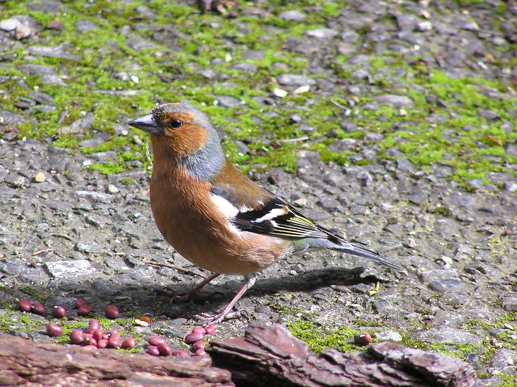 Male chaffinch (Fringilla coelebs) in Wellington, New Zealand (introduced species)